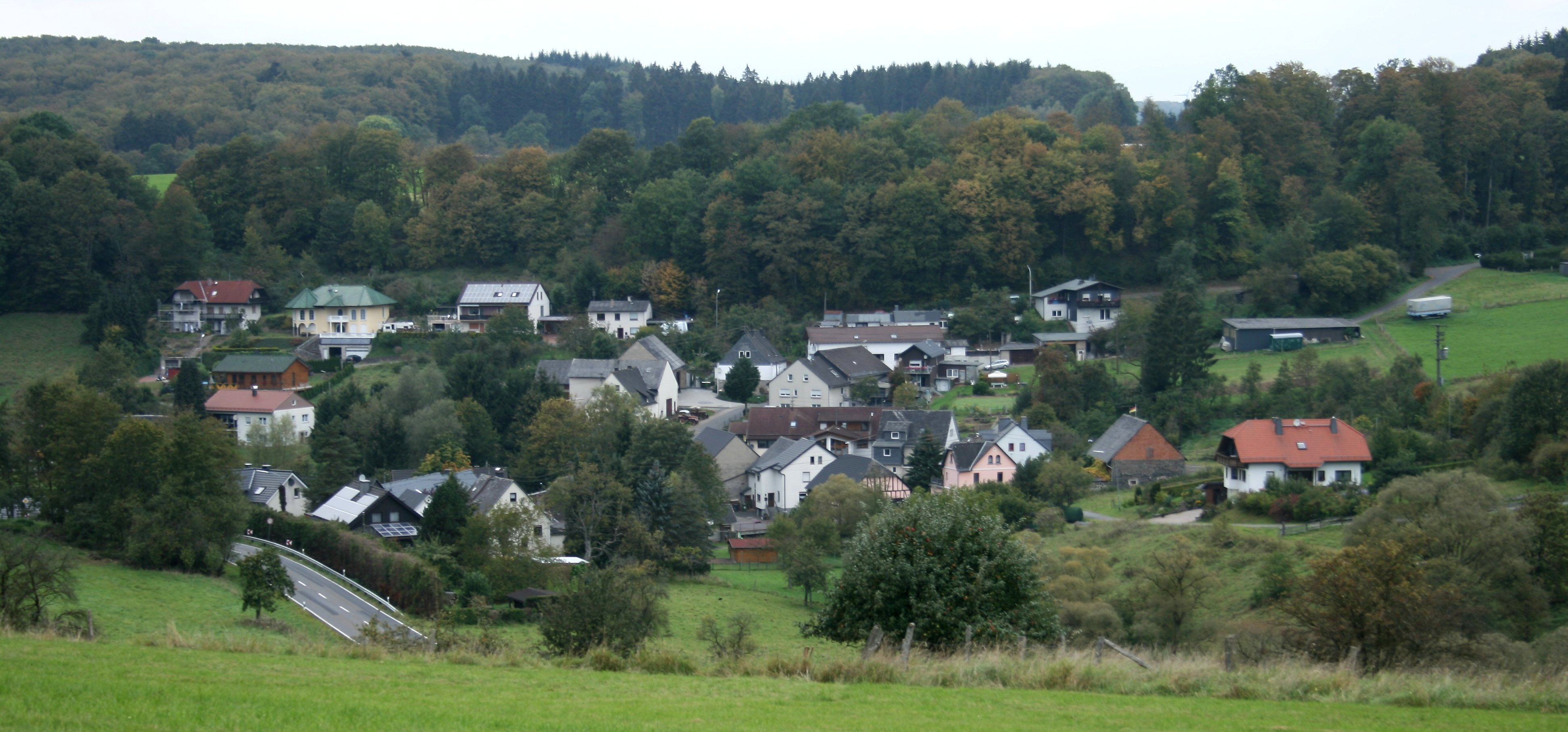 View from South East over Zürbach village (Maxsain municipality) in Westerwald, Rhineland-Palatinate, Germany